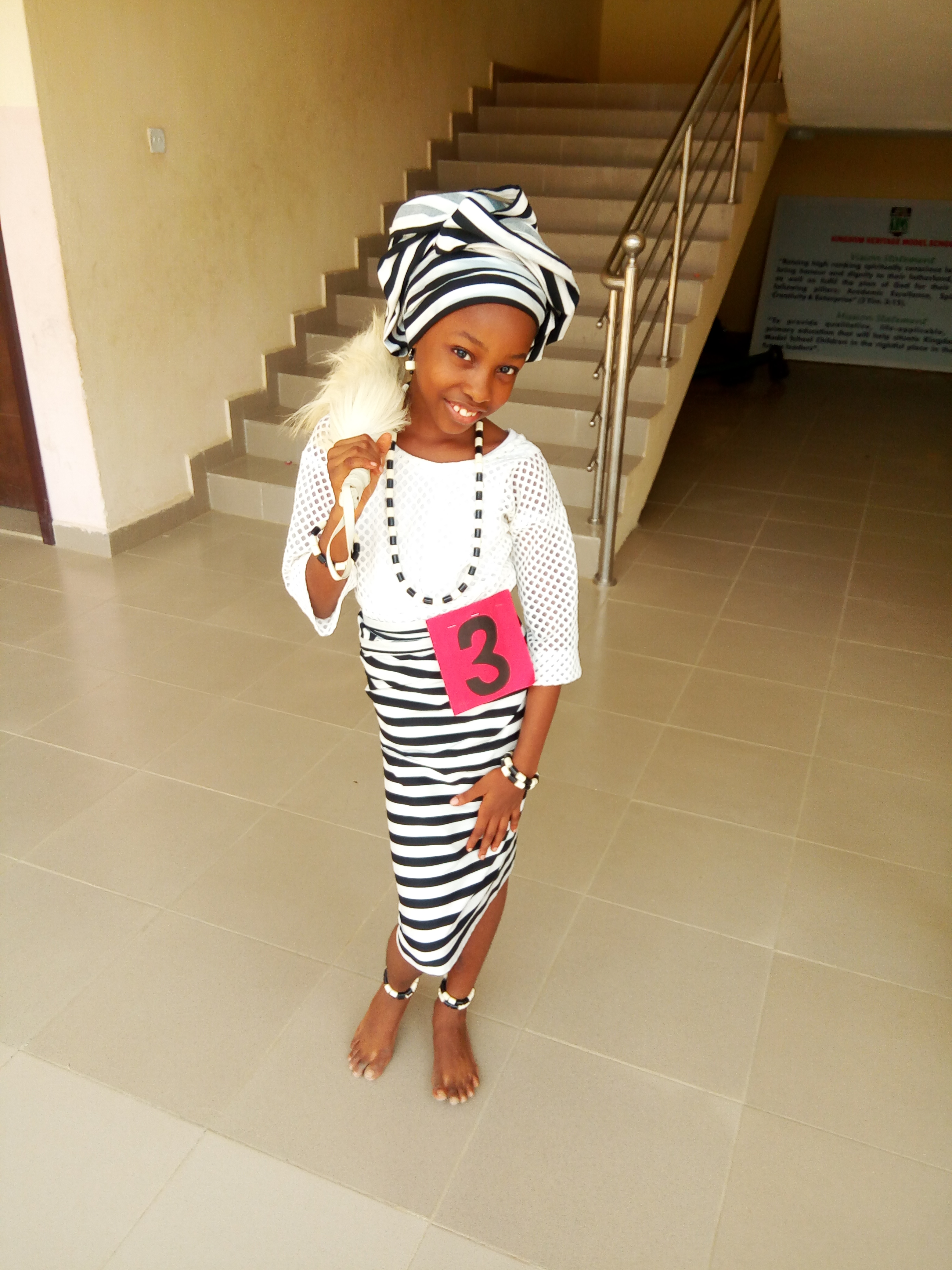 This pretty Nigerian kid prepares for her cultural competition with a Tiv cultural dress. This is an image from Nigeria